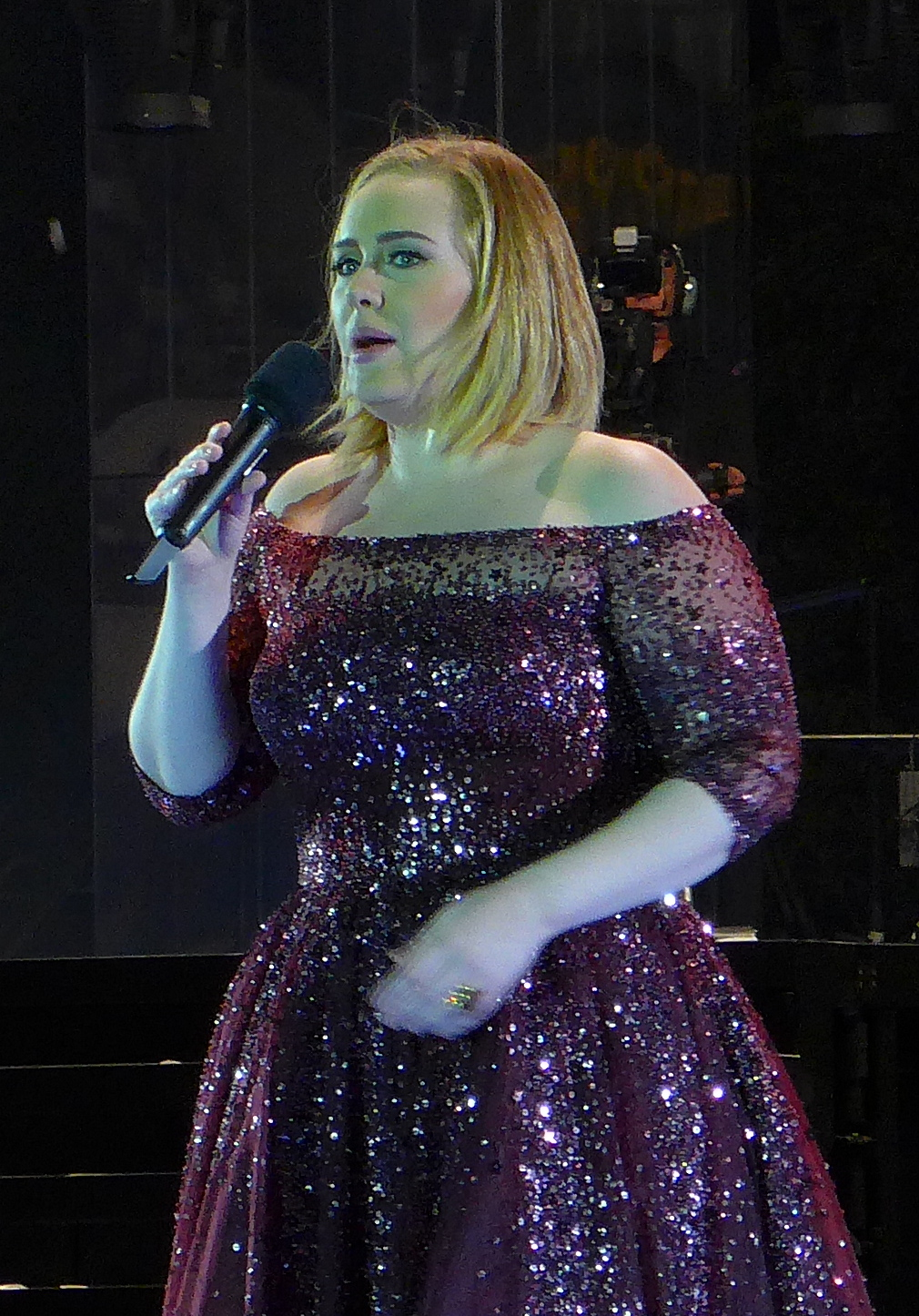 Adele in ADELAIDE during her first AUSTRALIAN Tour